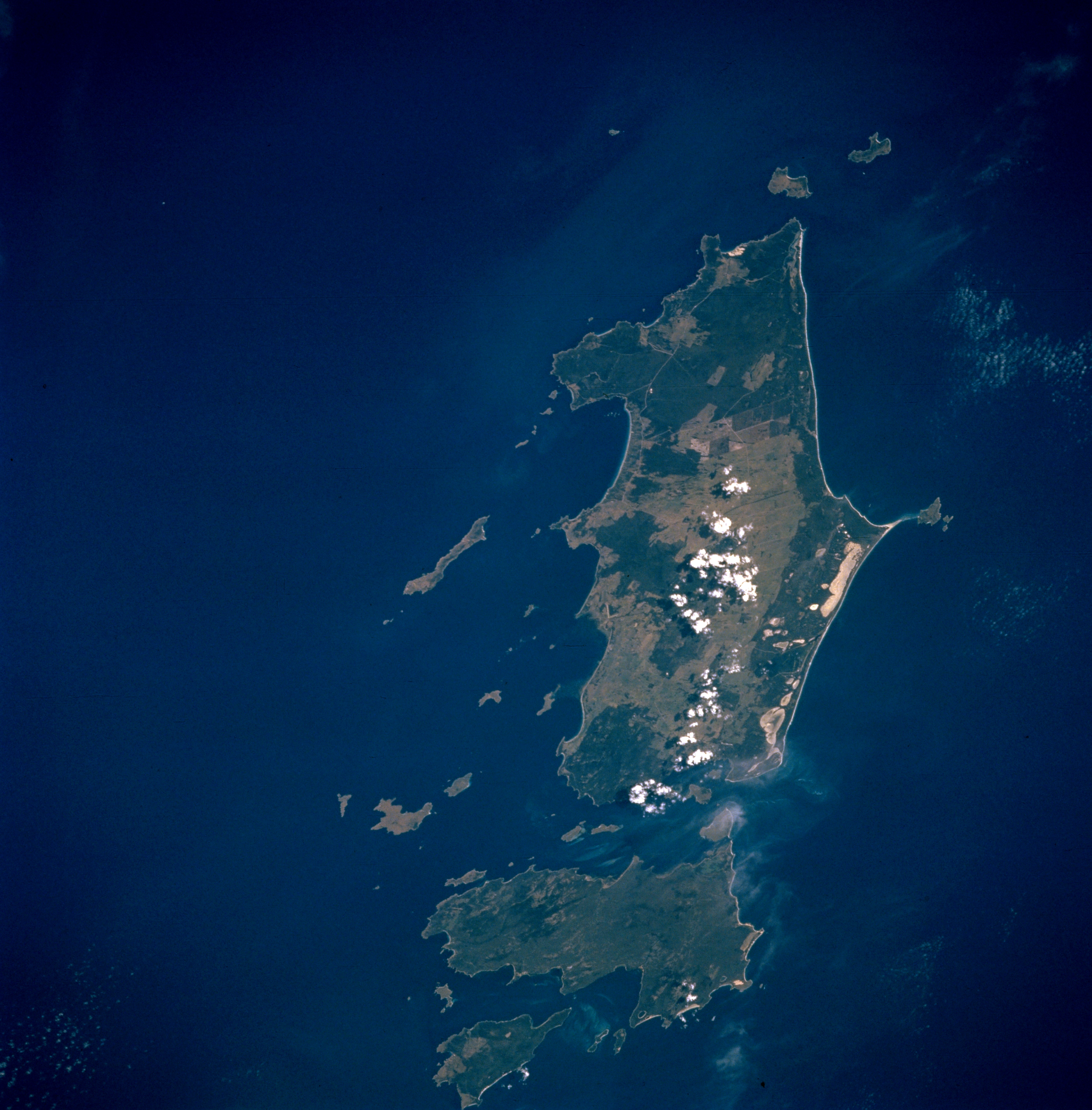 Flinders island from space. April 1993. Image decription here.